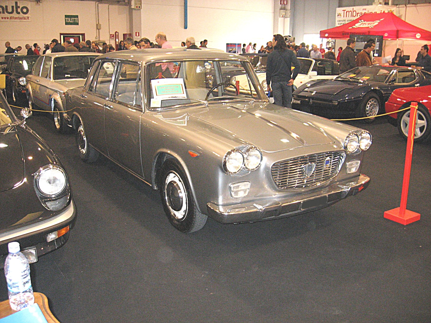 Subject: Lancia Flavia Mk1 Date:October 26th, 2008 Event: Auto e Moto d'Epoca 2008 Place/Country: Padova, Italy I release all rights in the public domain.